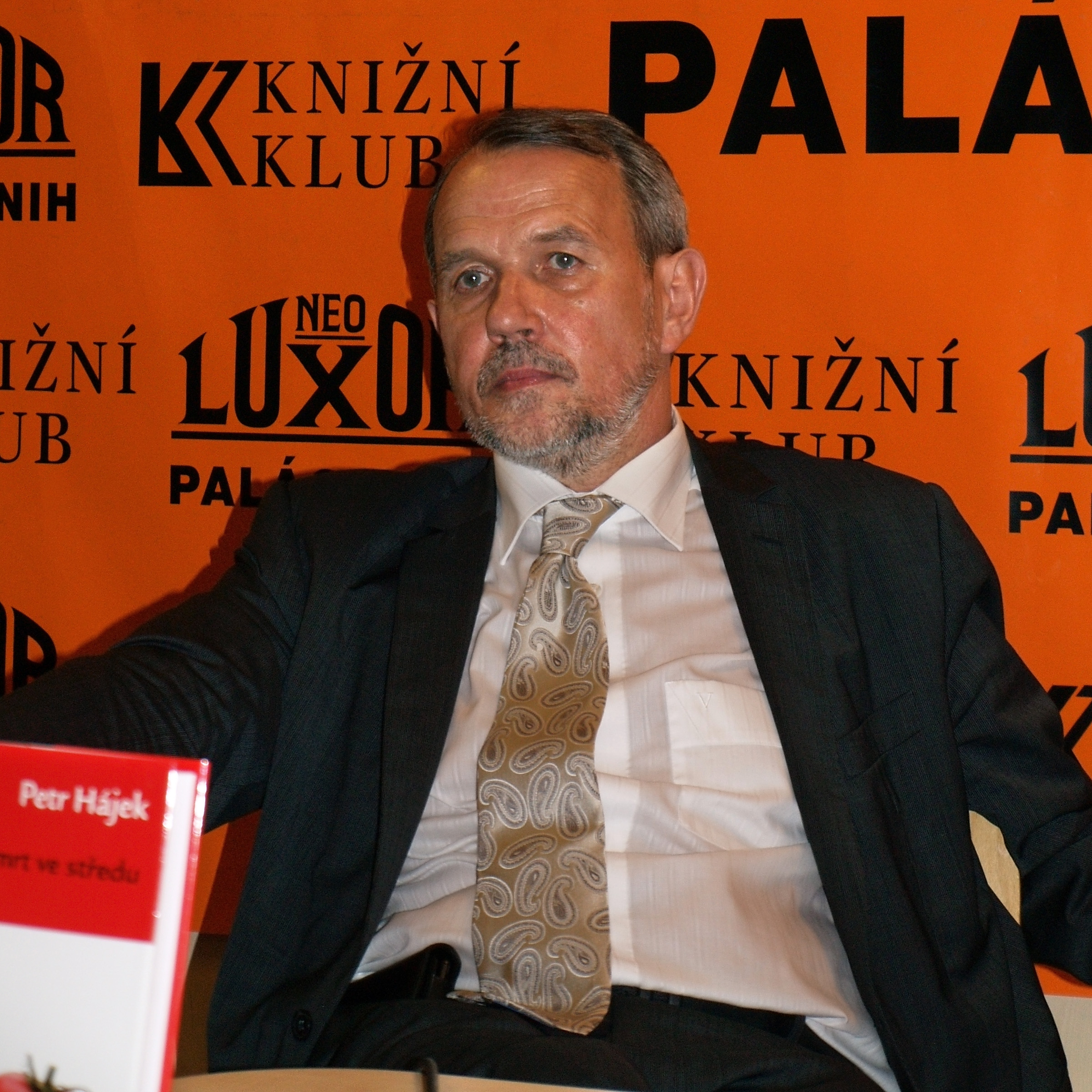 Czech journalist Petr Hájek (former spokesman of Czech president Václav Klaus)